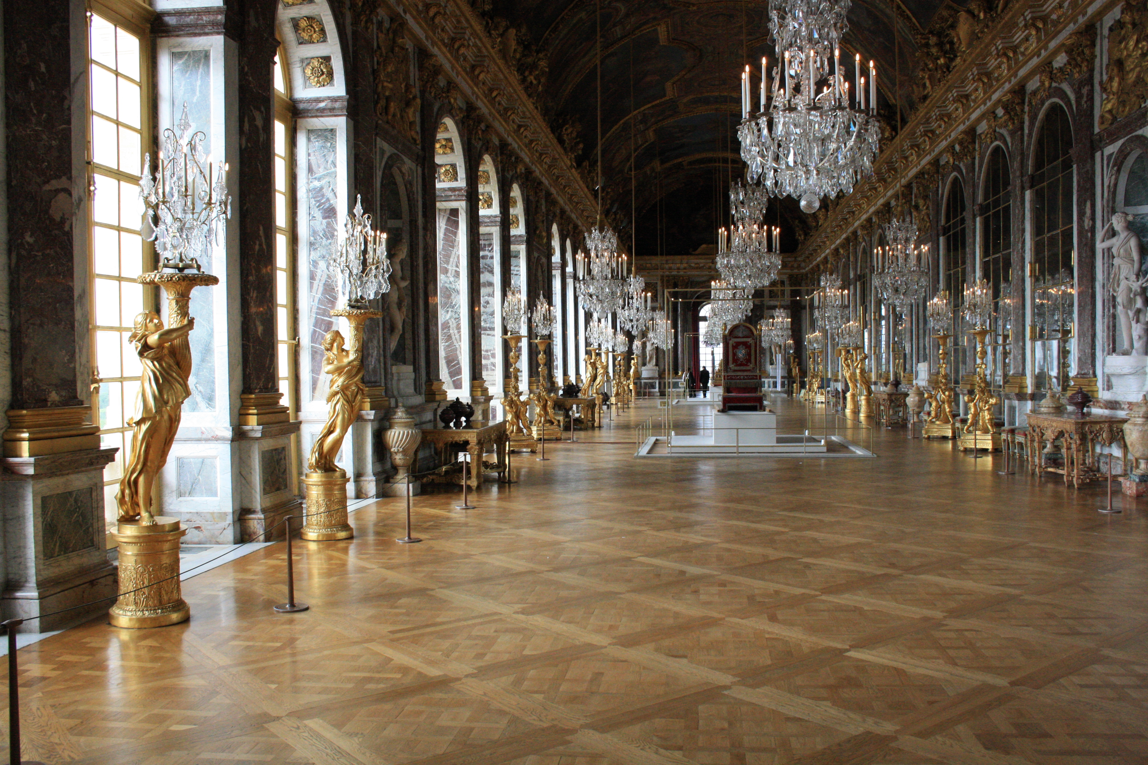 Galerie des Glaces (Hall of Mirrors) in the Palace of Versailles in Versailles, France